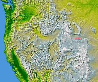 Granite Mountains in Wyoming ©2004 Matthew Trump